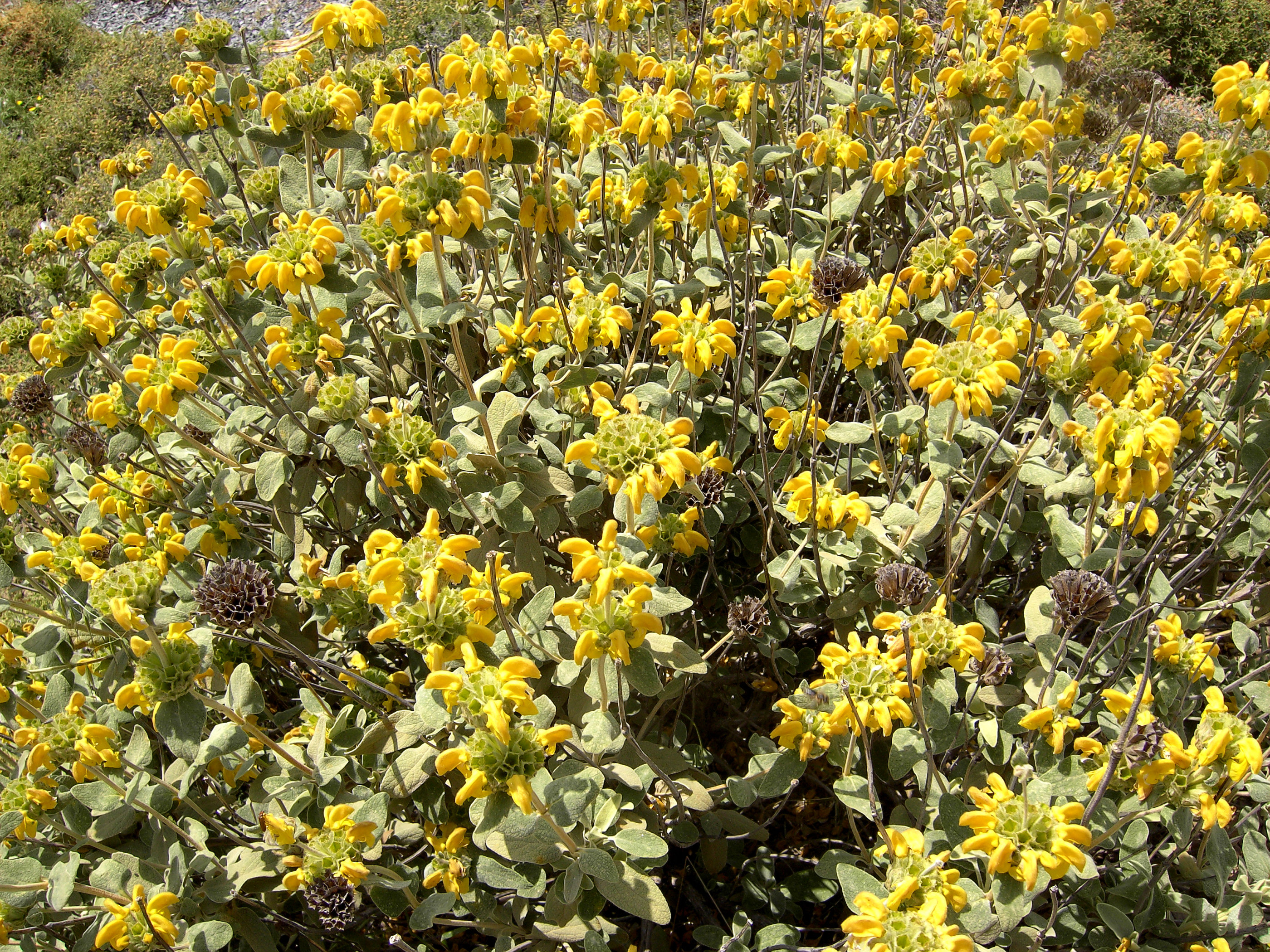 Jerusalem sage from Crete